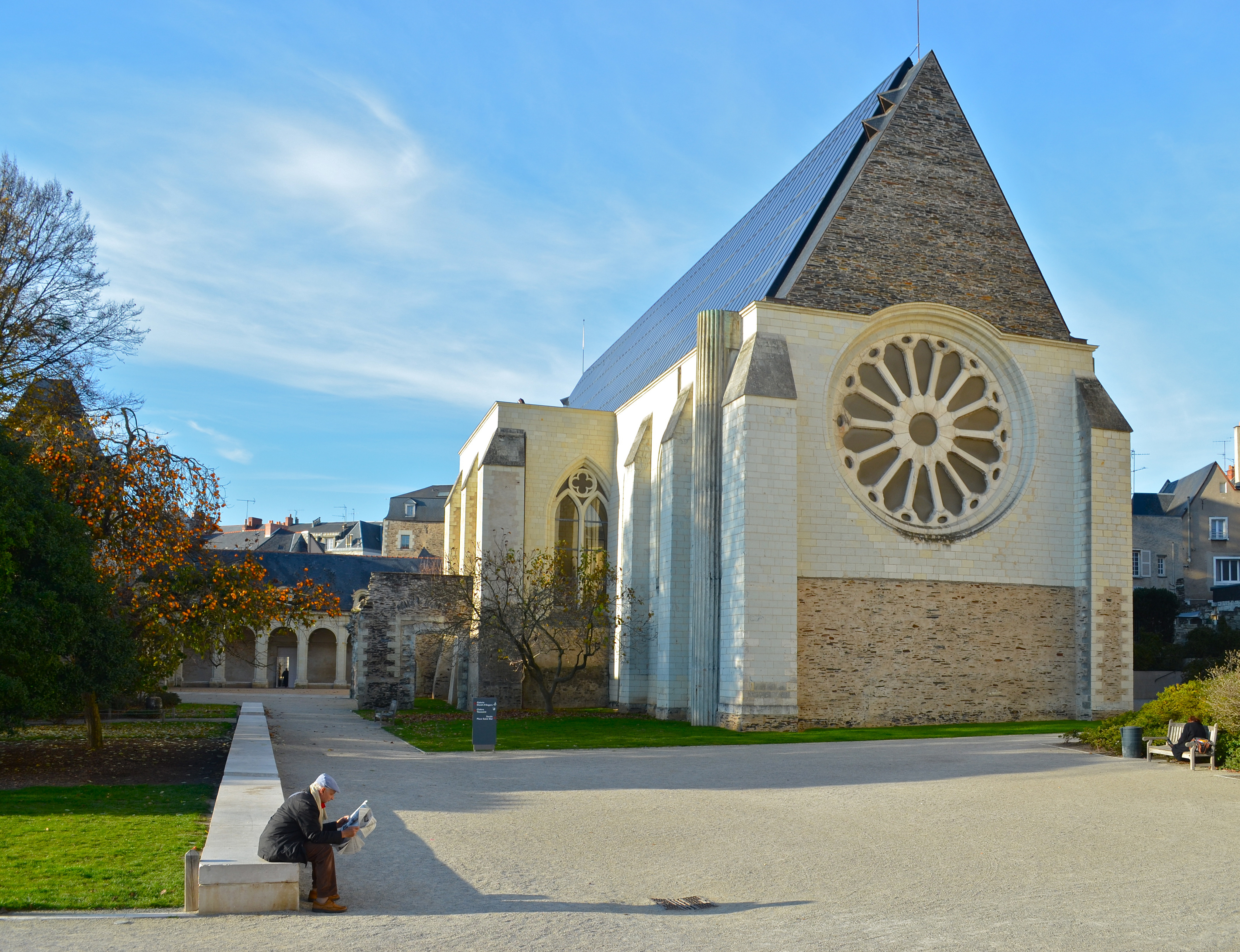 Toussaint abbey in Angers (France